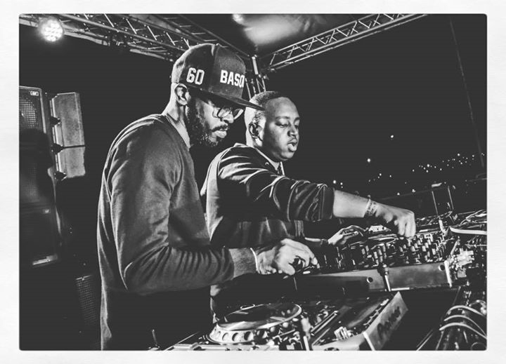 DJ Shimza playing along side Black Coffee Dj